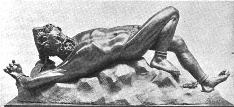 Bronze statue (1845) by the Belgian sculptor Paul Bouré (1823–1848), titled Prométhée enchaîné sur le mont Caucase (Prometheus Chained on Mount Caucasus) or Prométhée exposé sur le Caucase à être dévoré par les vautours ("Prometheus exposed on the Caucasus to be devoured by vultures"). 19th-century sculpture collection of the Royal Museums of Fine Arts of Belgium, Brussels (as of 2009).